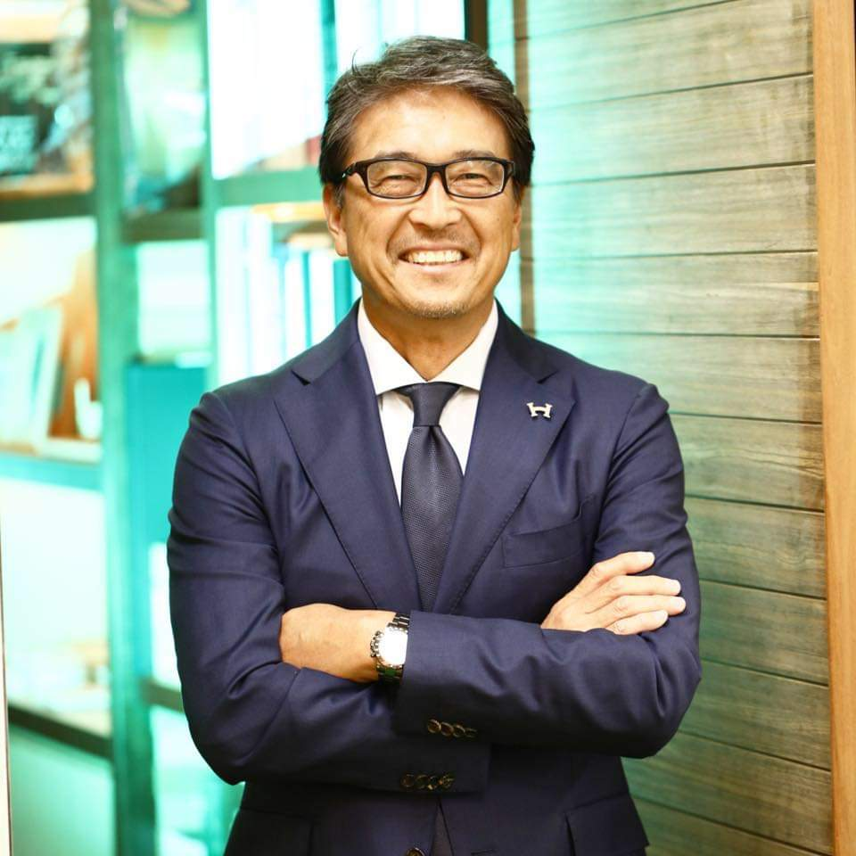 This is the FRANCFRANC CEO, Mr. FUMIO TAKASHIMA